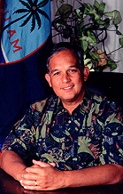 Robert Underwood, fmr Delegate from Guam (D-GU-AL). from